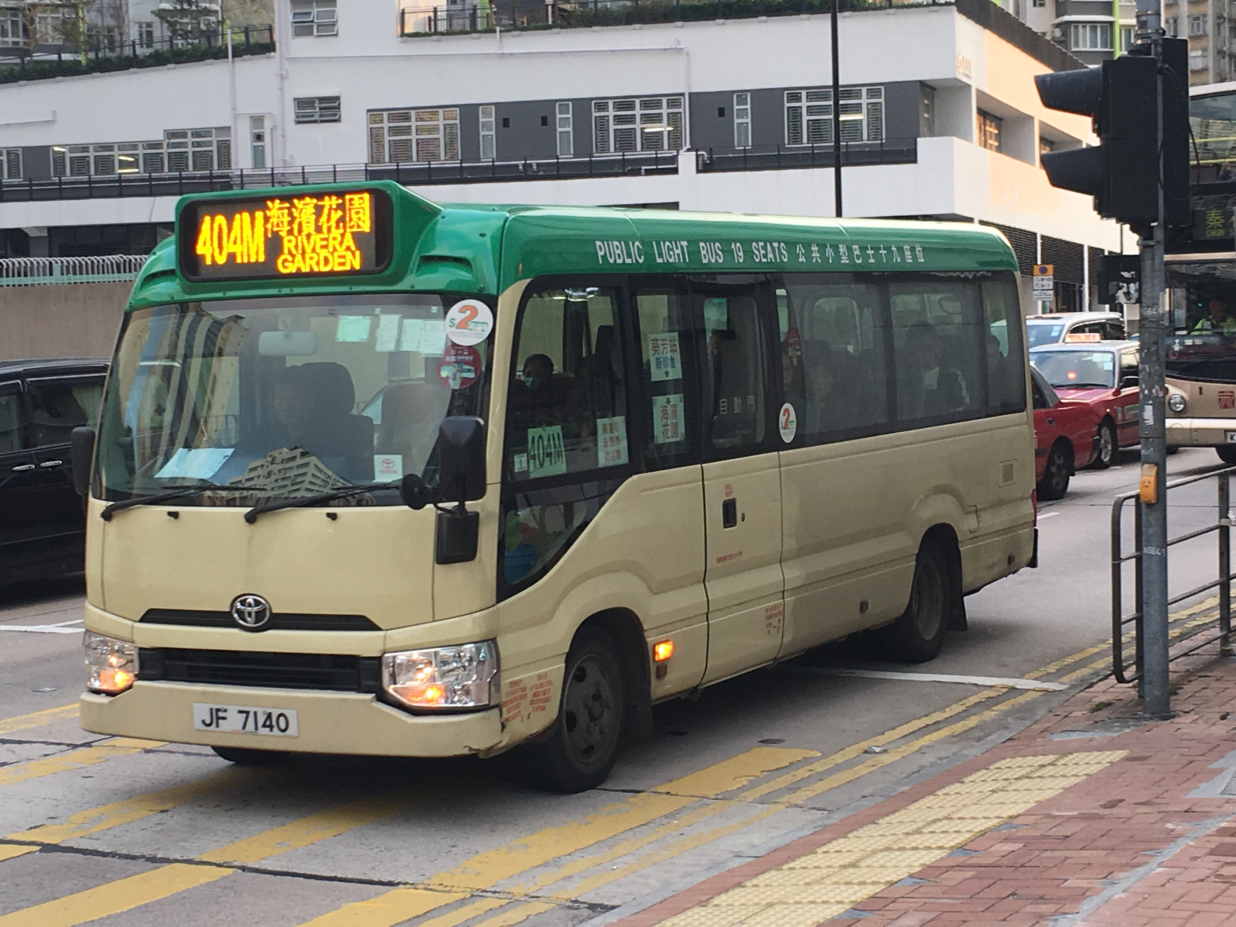 中文（香港）: This photo is taken in Kwai Fong.